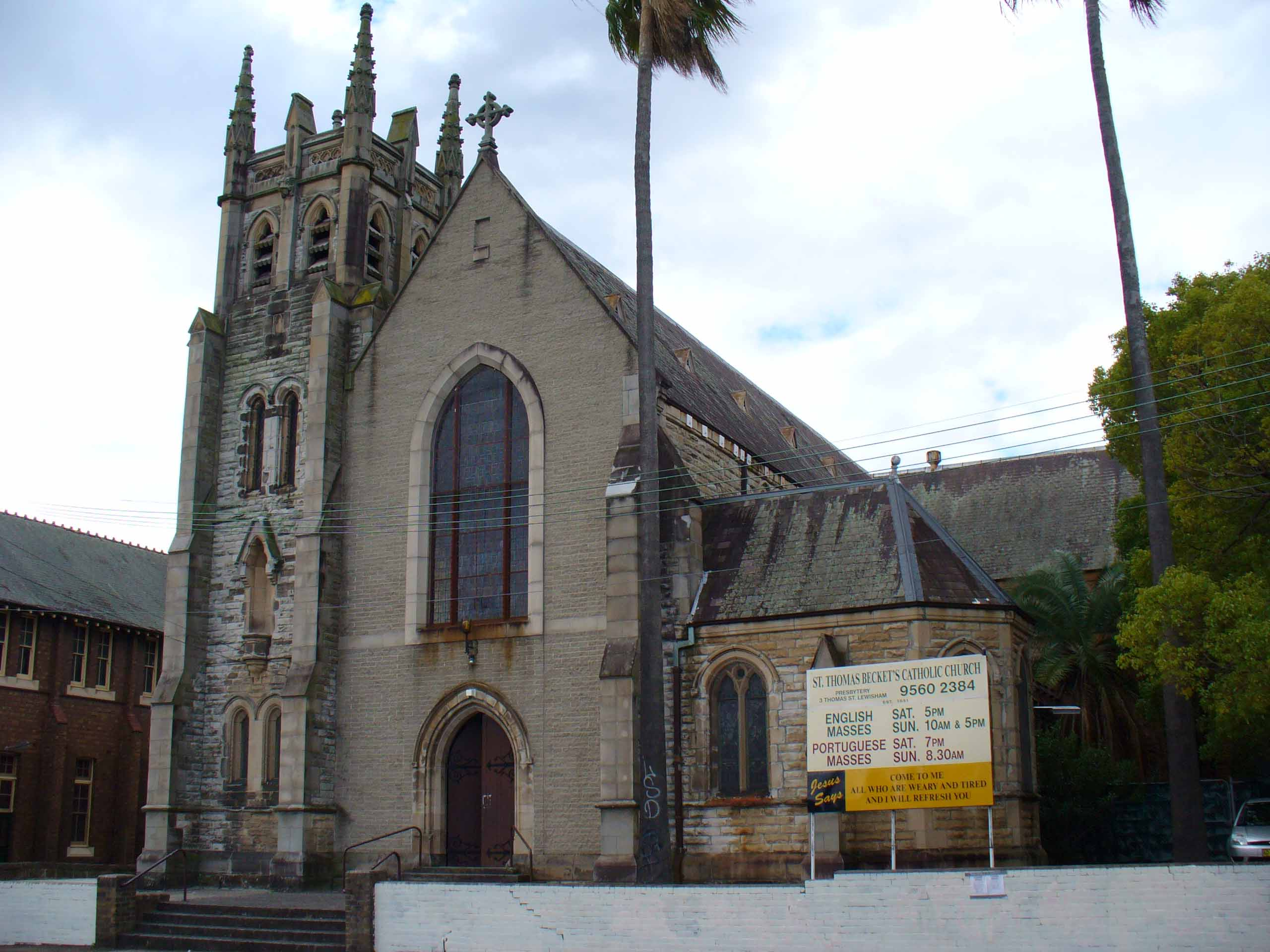 St Thomas Becket's Church Lewisham NSW Taken by myself on 31st July 2006 WikiCats